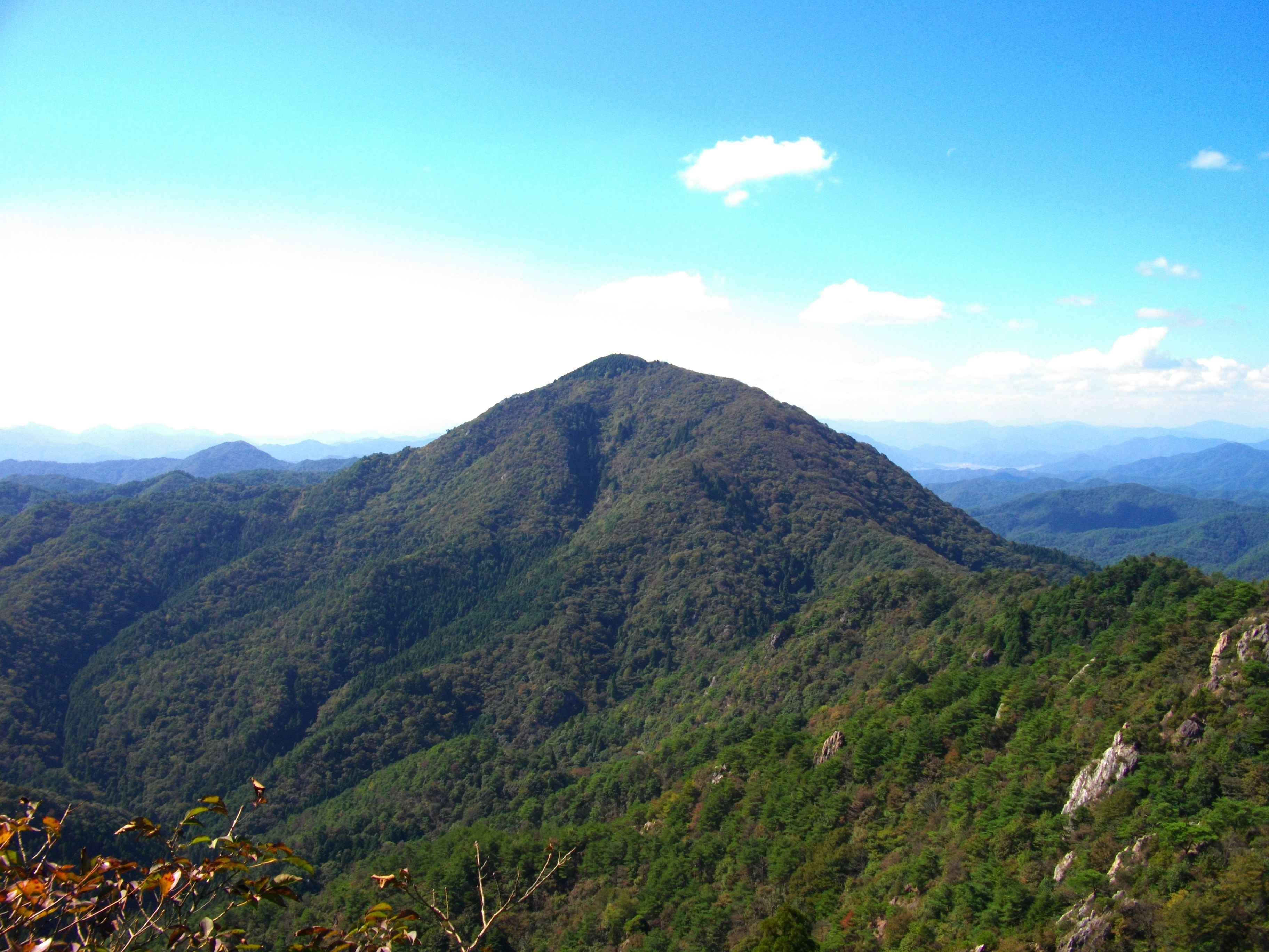 Mount Mitake from Mount Kogane, Taki Mountains, Hyogo, Japan.